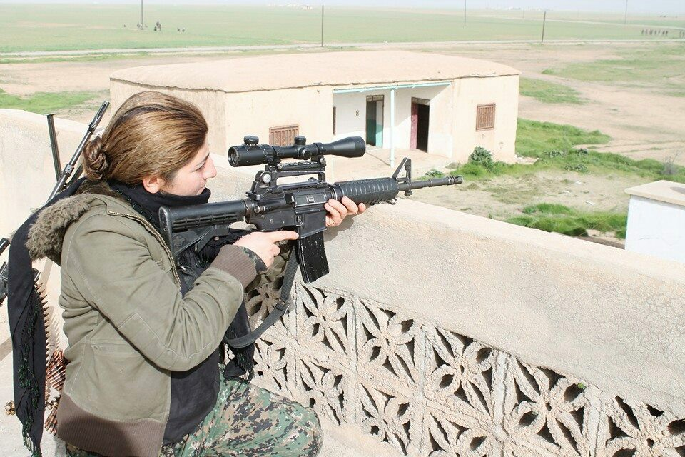 A fighter with the YPJ aims her rifle from a position of cover